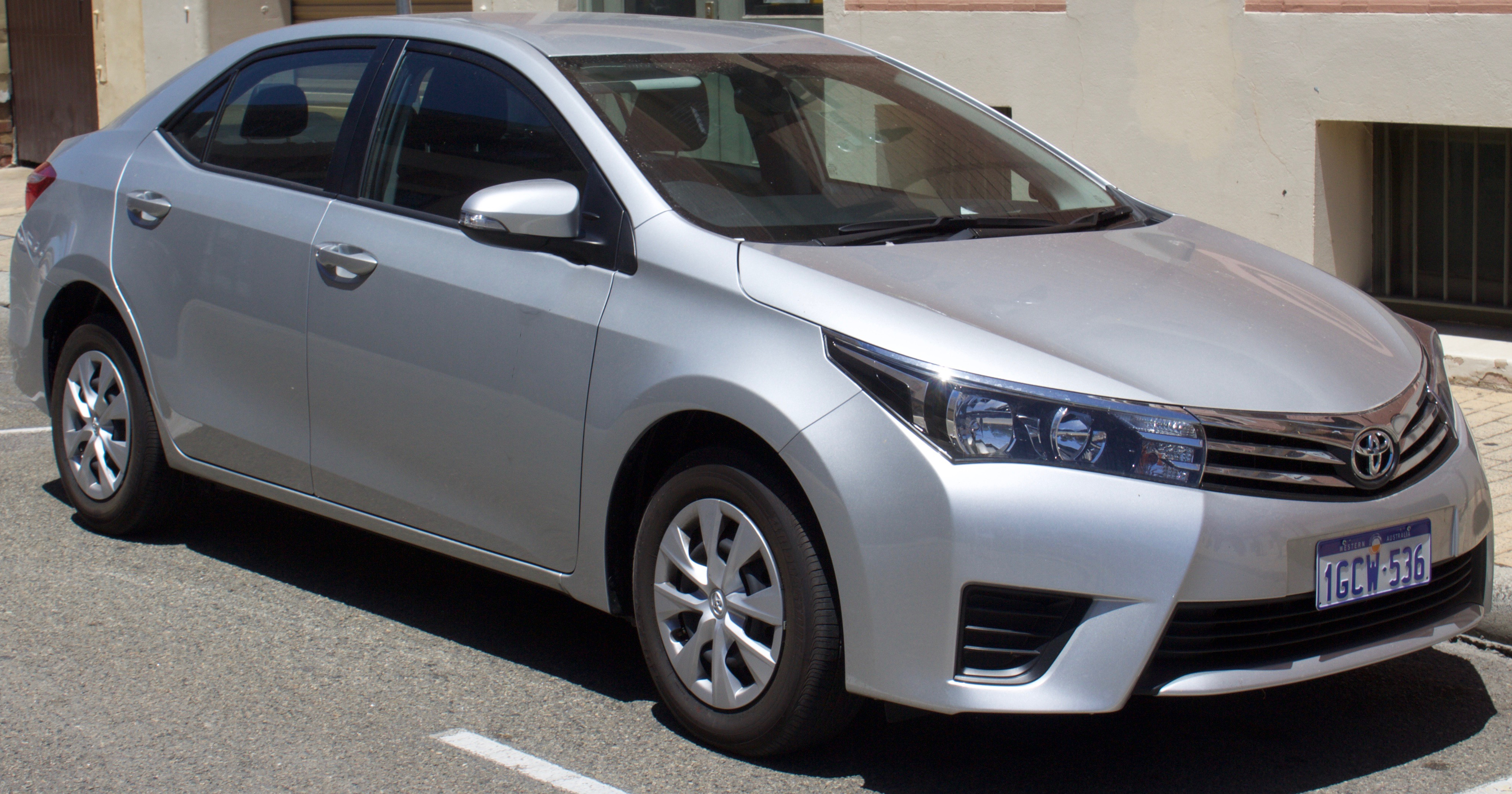 2016 Toyota Corolla (ZRE172R) Ascent sedan. Photographed in Fremantle, Western Australia, Australia.